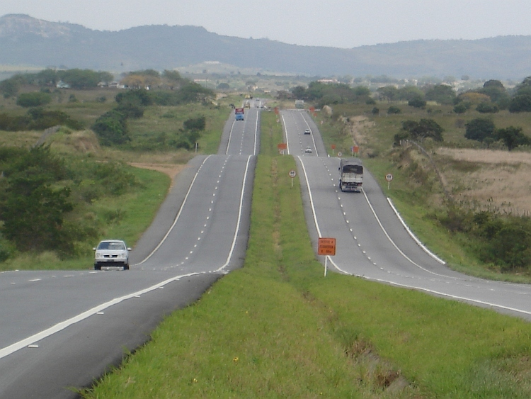 Part of the BR-230 twice, in the state of Paraíba